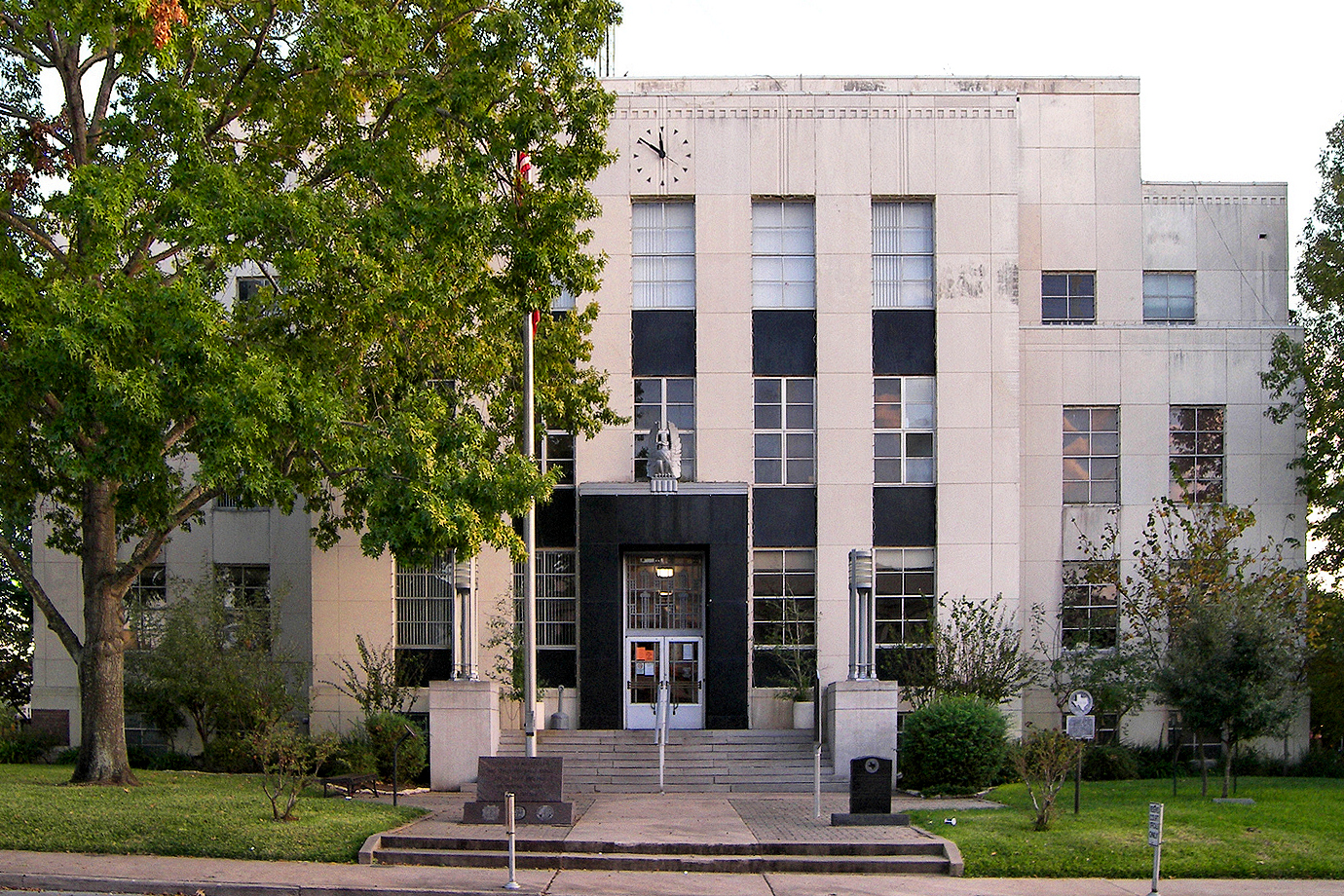 The Washington County, Texas courthouse located in Brenham, Texas, United States. The Courthouse was designated a Recorded Texas Historic Landmark in 1985 and listed on the National Register of Historic Places on March 29, 1990.